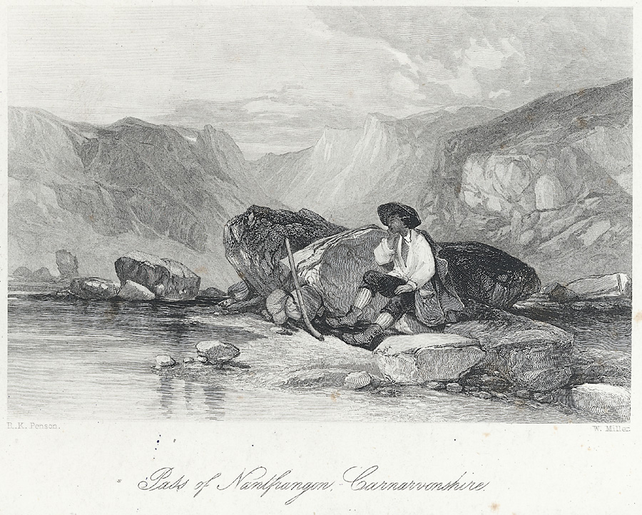 A man sitting on a rock in the mountains.